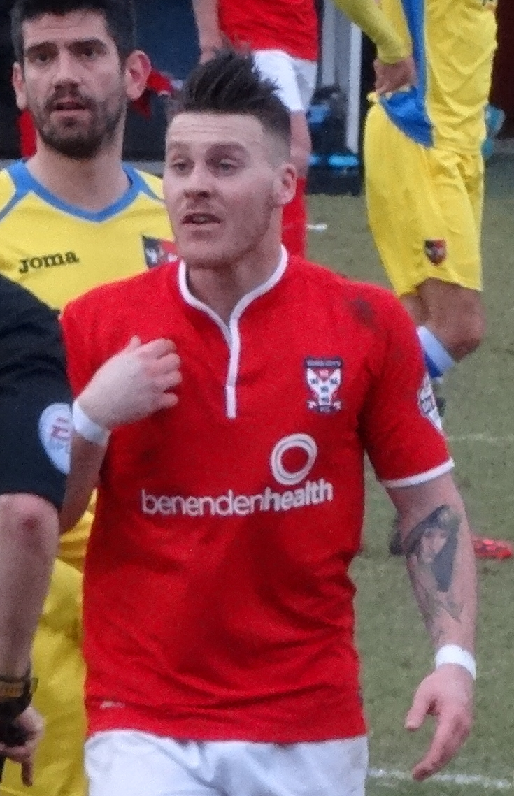 Josh Carson playing for York City against Exeter City at Bootham Crescent, York on 28 February 2015